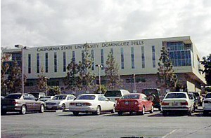 A building at California State University.